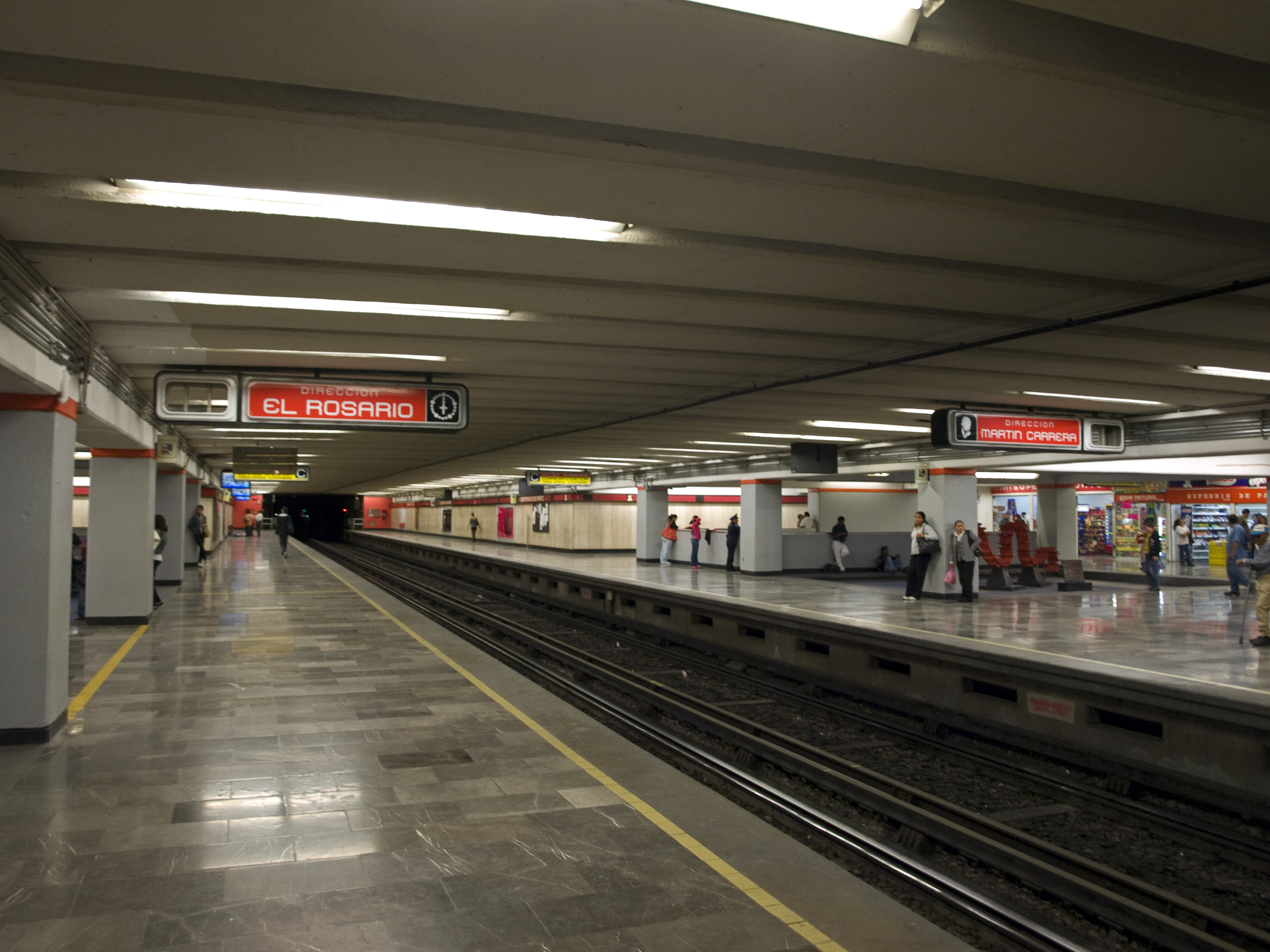 Platforms, Metro Deportivo 18 de Marzo, Line 6